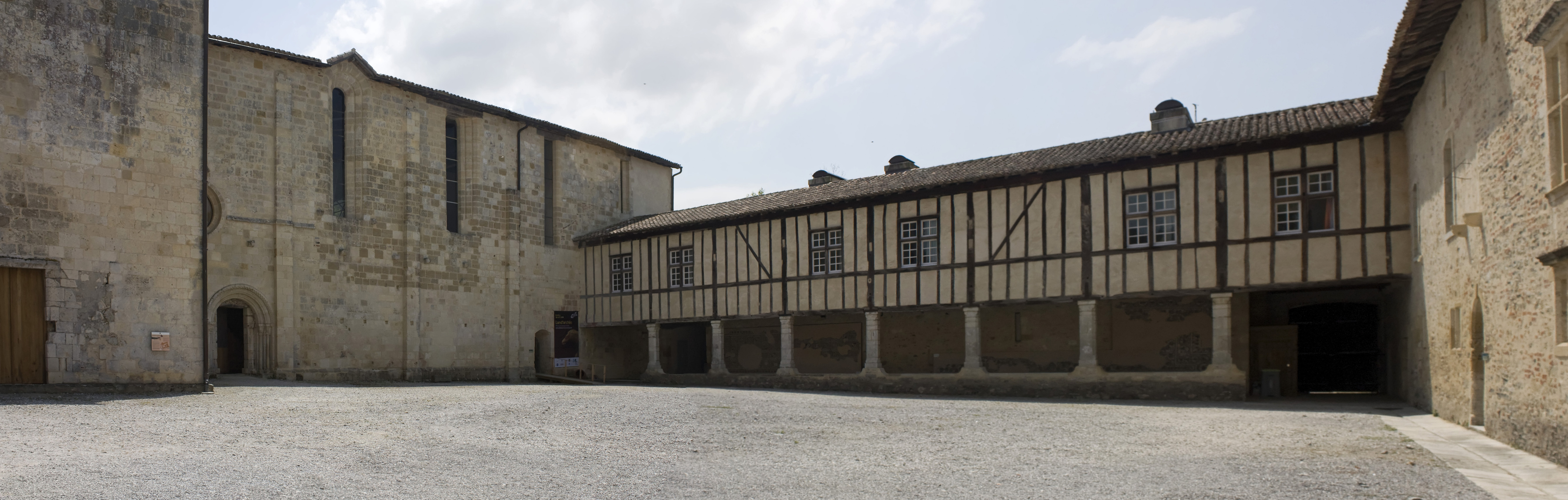 Abbey courtyard